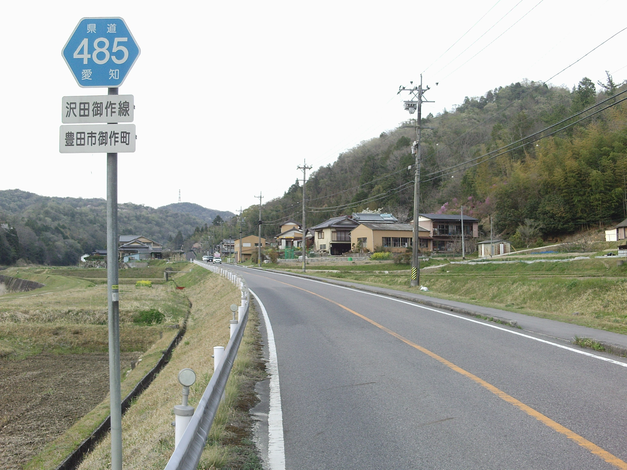 Aichi prefectural road No.485 in Mitzukuricho, Toyota, Aichi.